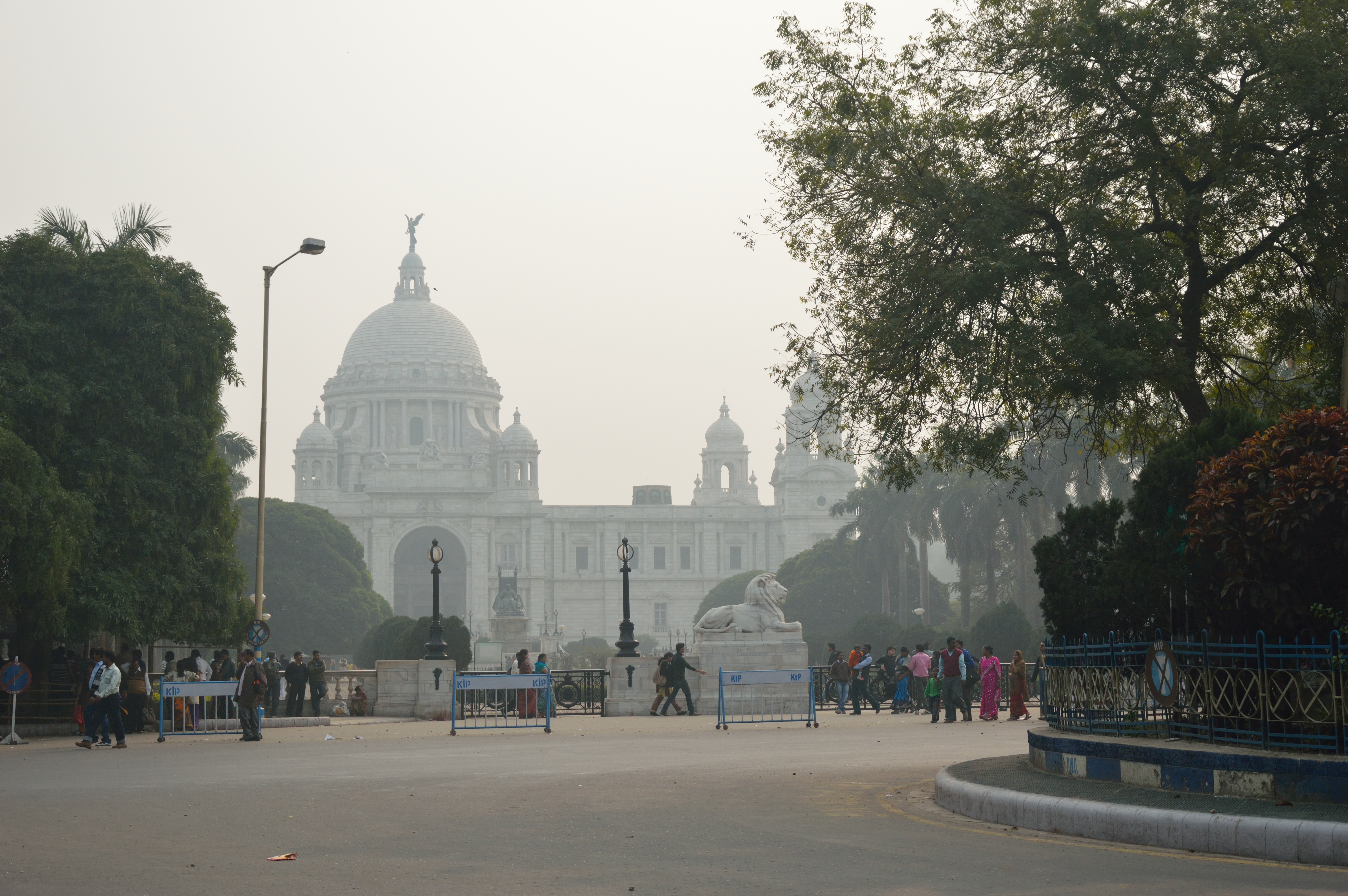 Photographed in Kolkata.